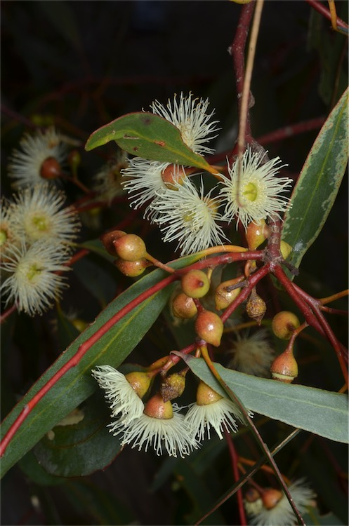 Flower buds of Eucalyptus leucoxylon in the Little Desert National Park, Stringybark Nature Walk, Victoria